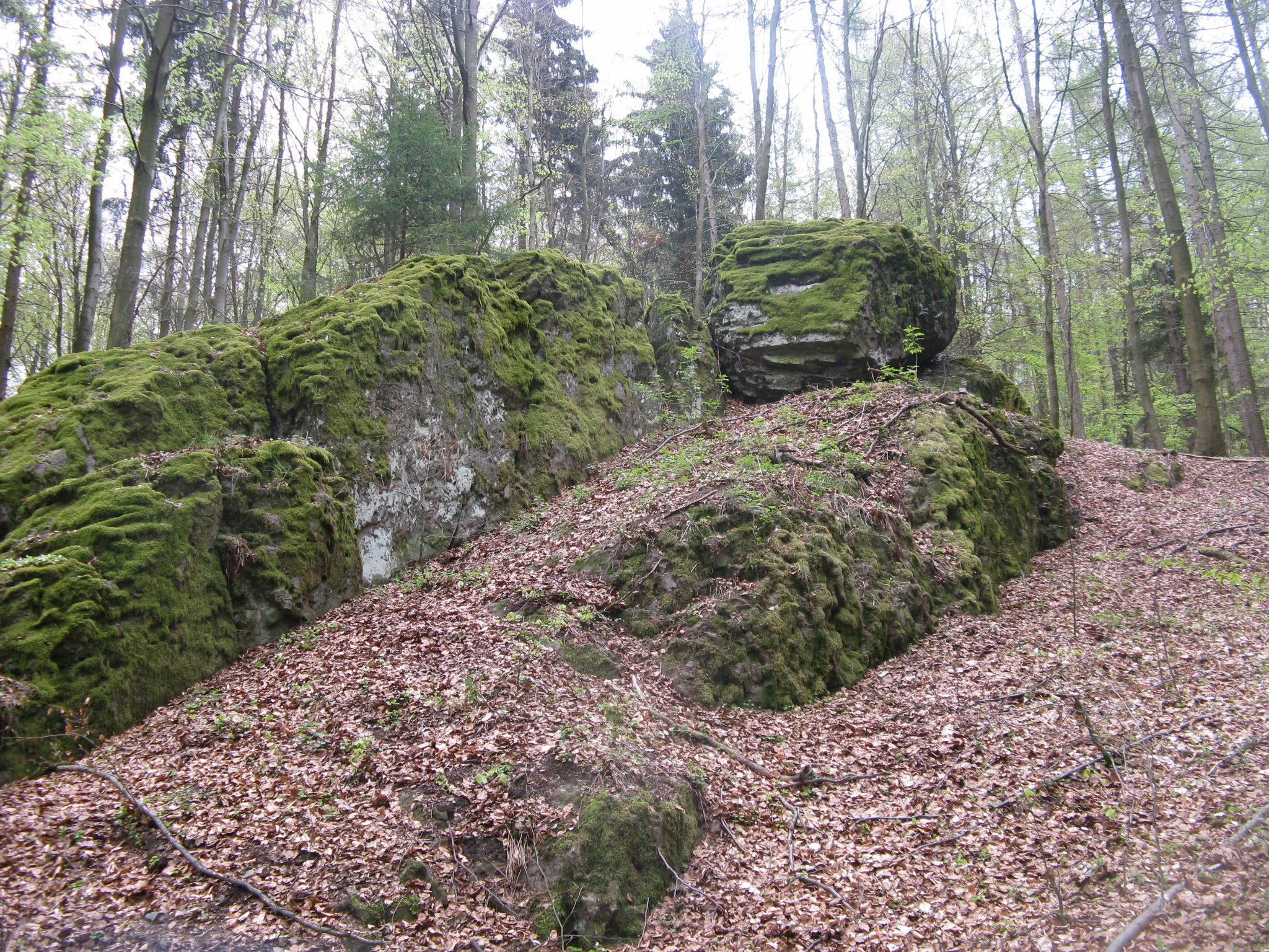 Madstein, near Bad Orb, Spessart/Germany